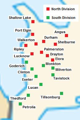 Locations of teams in the Western Ontario Athletic Association Senior Hockey League